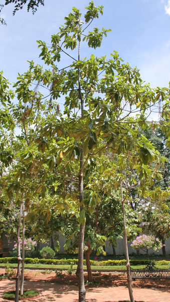 Batino Alstonia macrophylla in Hyderabad , India.